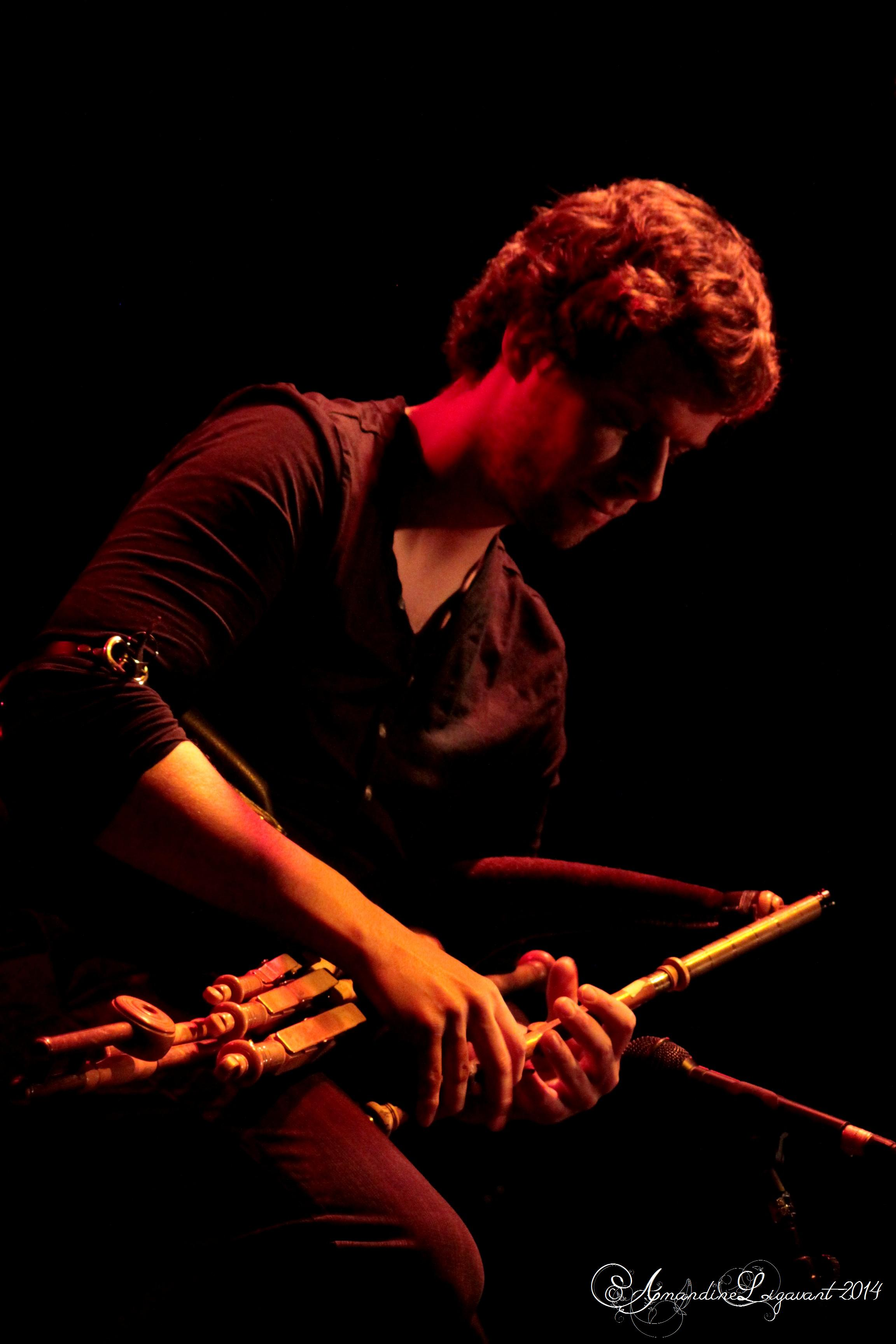 Calum Stewart playing the Uillean Pipes. Photograph by Amandine Ligavant. 17th January 2014. Other information Calum Stewart has received permission via e-mail from Amandine Ligavant, the photographer. She will also send the formal Wikipedia permission letter back to Wikipedia, granting a free licence within the next 7 days.